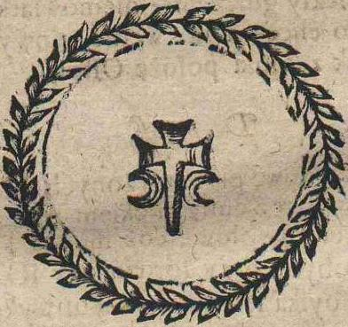 Ostoja according to Wacław Potocki